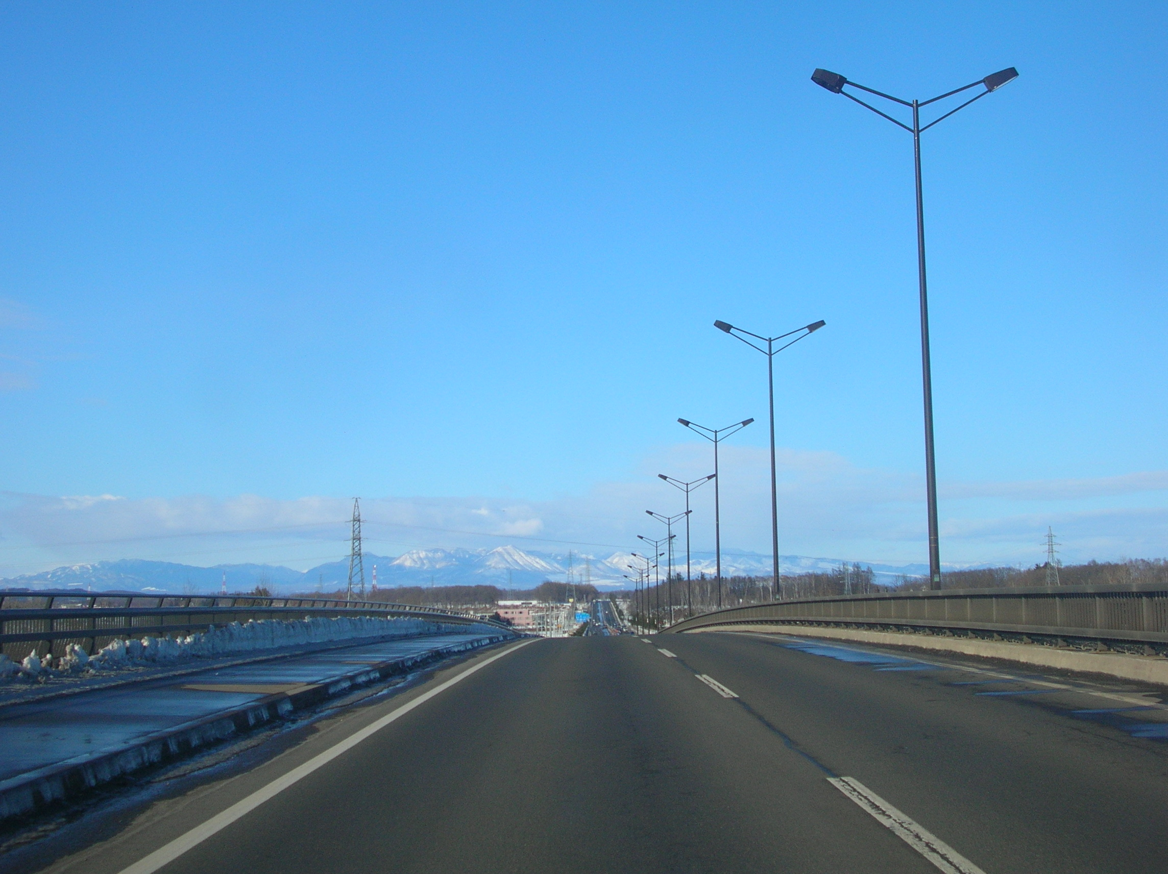 橋越えの眺め（Across the bridge and）